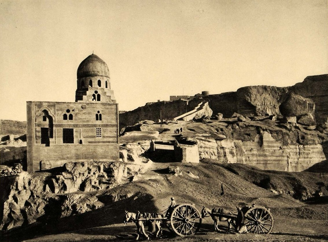 Cistern of Ya'qub Shah al-Mihmandar, with memorial dedicated to one of Qaytbay's victories, in Cairo.